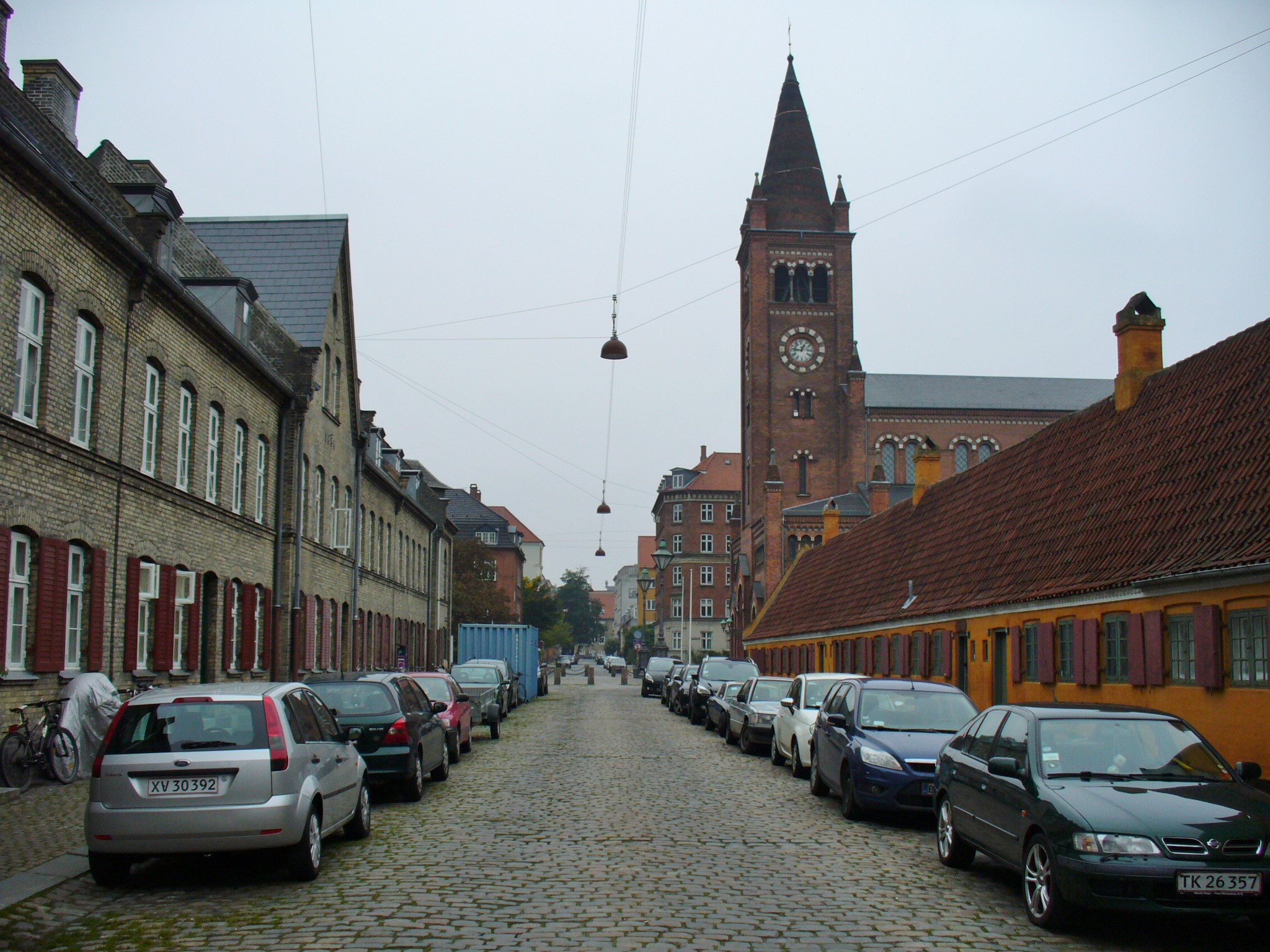 The street Sankt Pauls Gade with Sankt Pauls Kirke in the area Nyboder in Copenhagen.